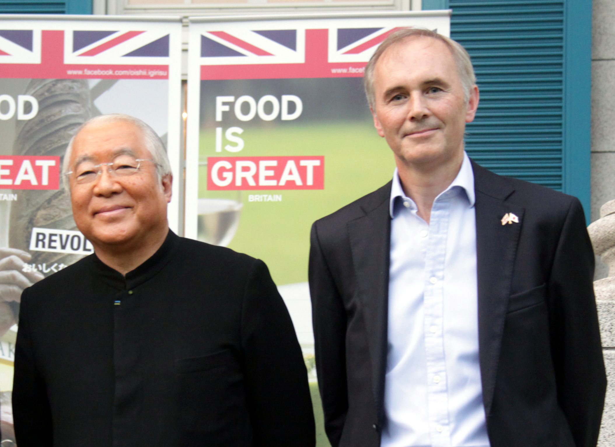 Yukio Hattori, President of the Hattori Nutrition College, met Tim Hitchens, Ambassador to Japan, at the British Embassy in Tokyo on August 28, 2013.